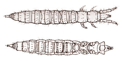 Acerentomon doderoi (Acerentomidae). Length 1.2 mm. After Silvestri 1907 (Boll. Lab. Zool. Portici, i, pp. 296-311). Drawings from R. J. Tillyard. 1926. The Insects of Australia and New Zealand. Angus & Robertson, ltd., Sydney.